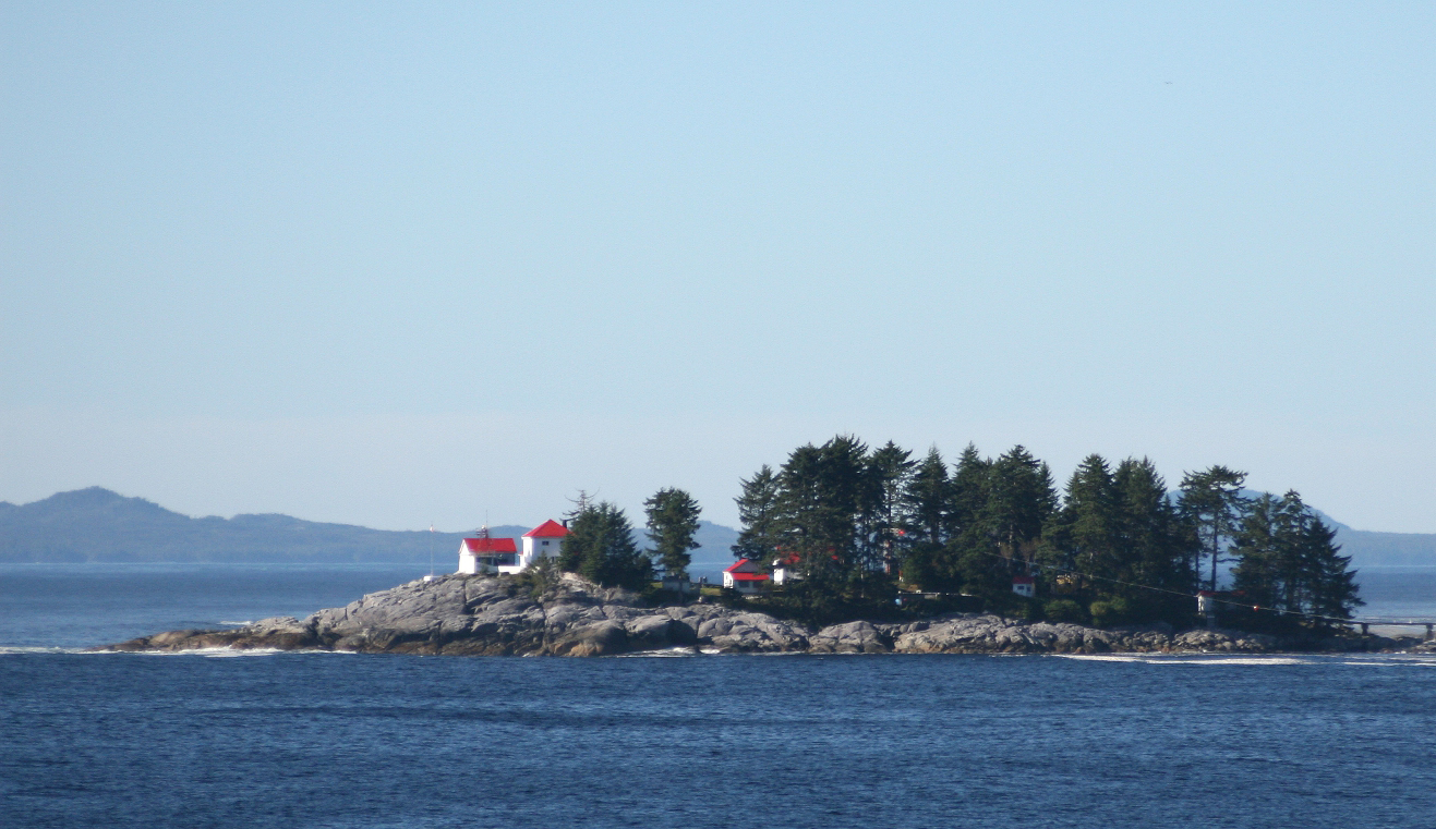 Ivory Island Lightstation as seen from the Inside Passage.